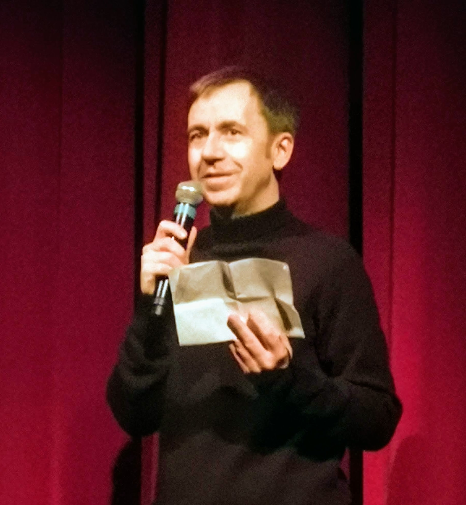 Dag Johan Haugerud at the Oslo premiere for «Lyset fra sjokoladefabrikken» (2020)